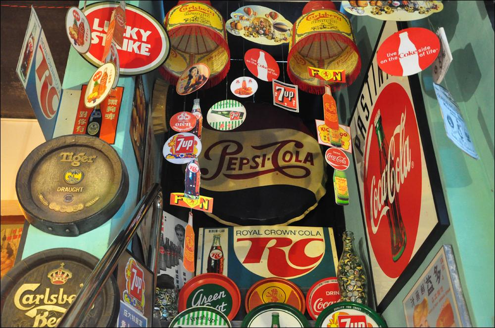 The TIME TUNNEL museum is located within the Kok Lim Strawberry Farm, UT/MR/F-255, Jalan Sungei Burung, 39100, Brinchang, the Cameron Highlands, Pahang, West Malaysia.